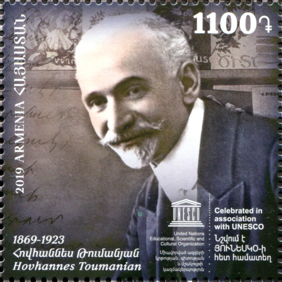 Prominent Armenians. 150th anniversary of Hovhannes Toumanian